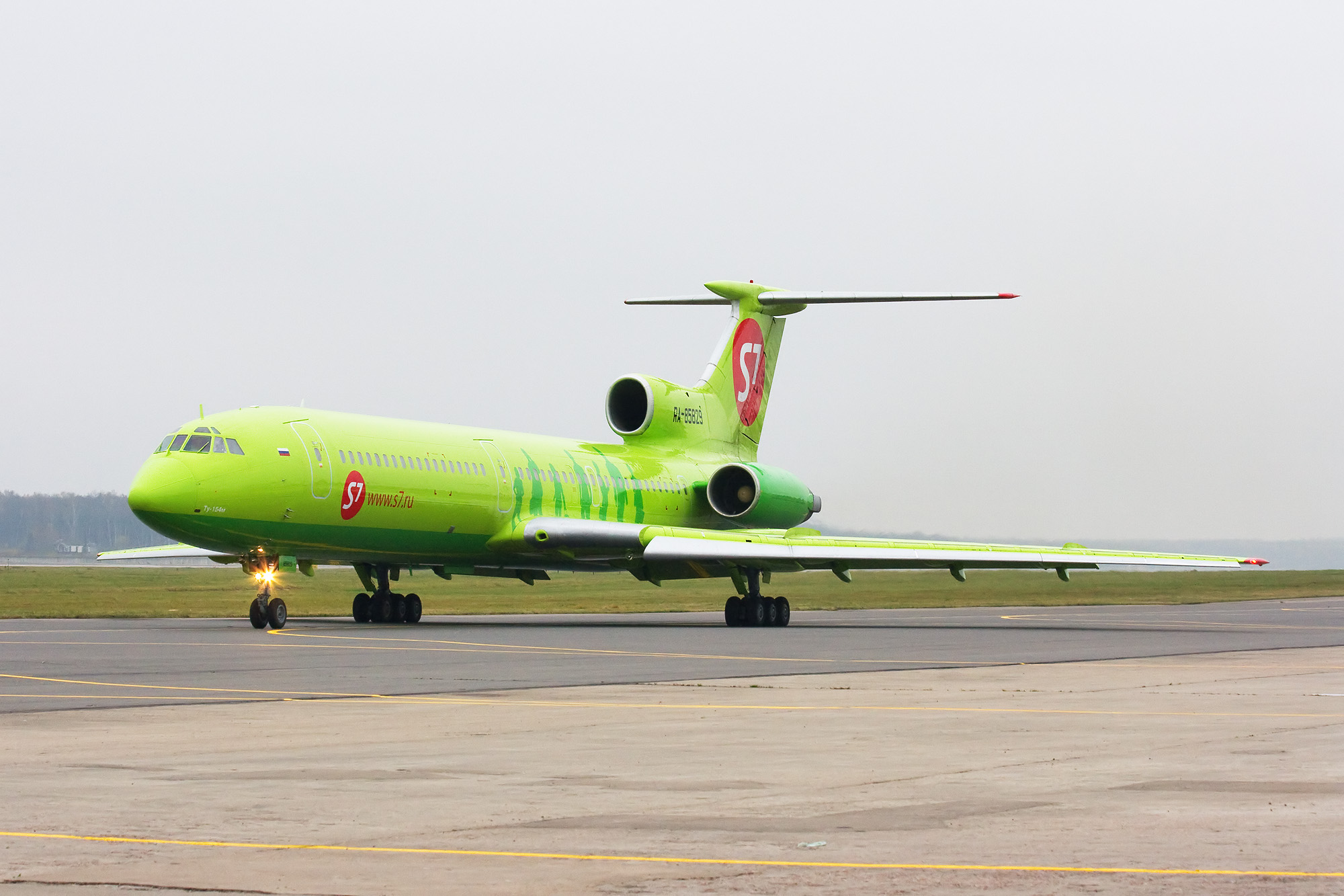 S7 Tupolev Tu-154M